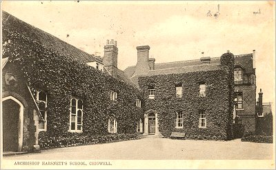 A photograph of Chigwell School, Essex, taken during or before 1904; caption reads "Archbishop Harsnett's School".